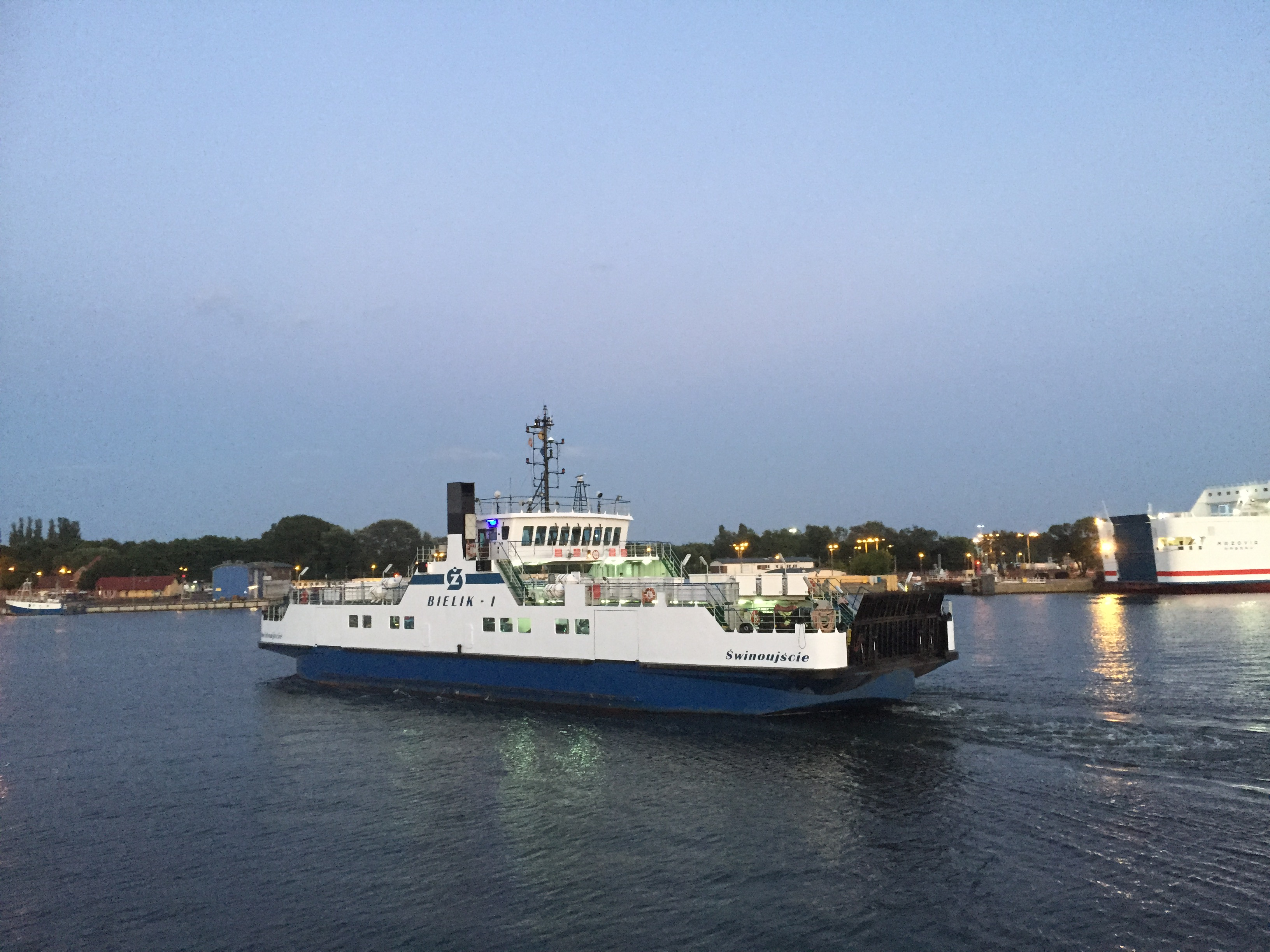 Ferry in Swinoujscie